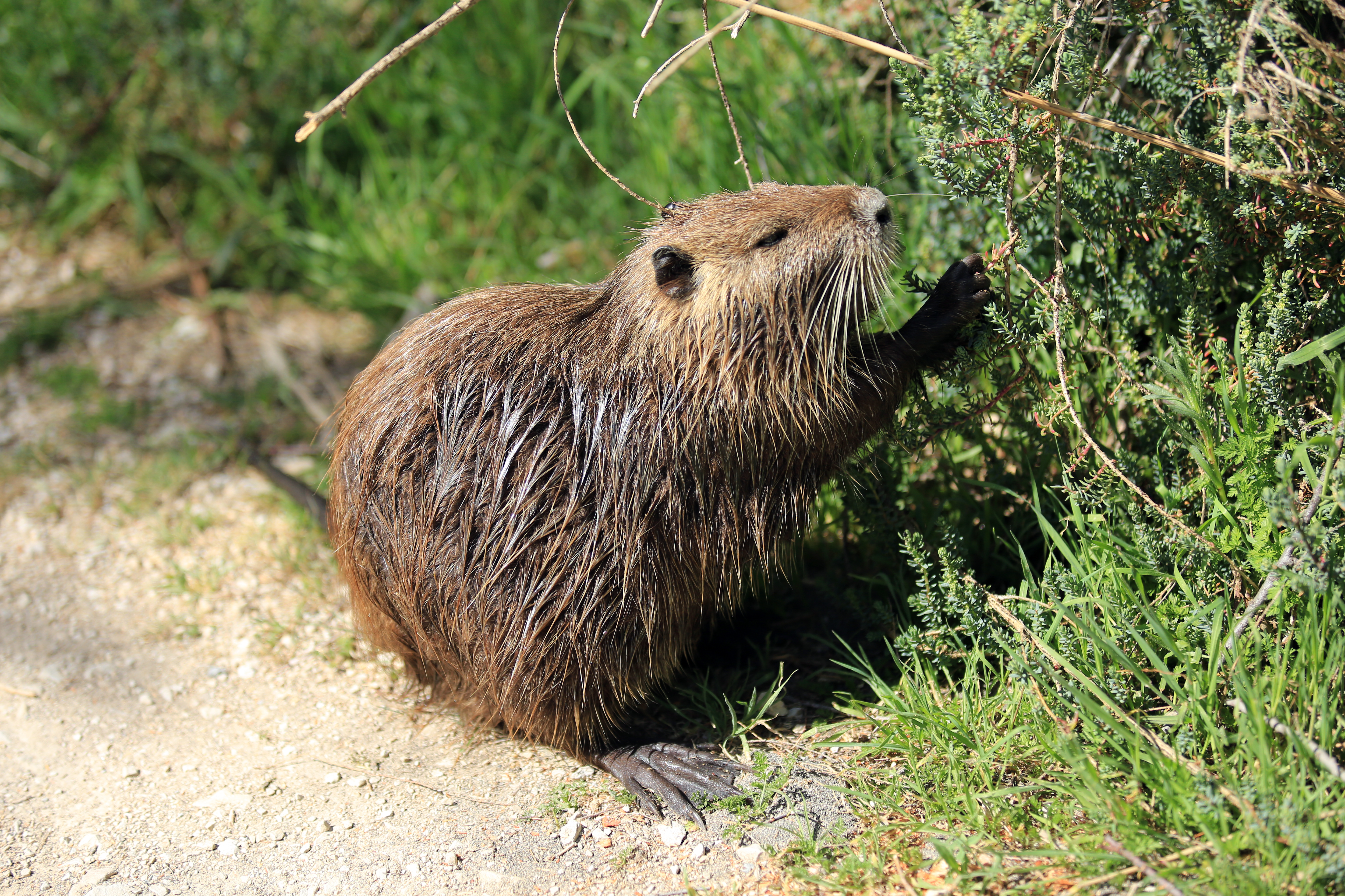 The meal of a nutria. The nutria is a shy animal, peoples don't disturb him. He eats vegetables only. Picture taken by Pont de Gau in Camargue.